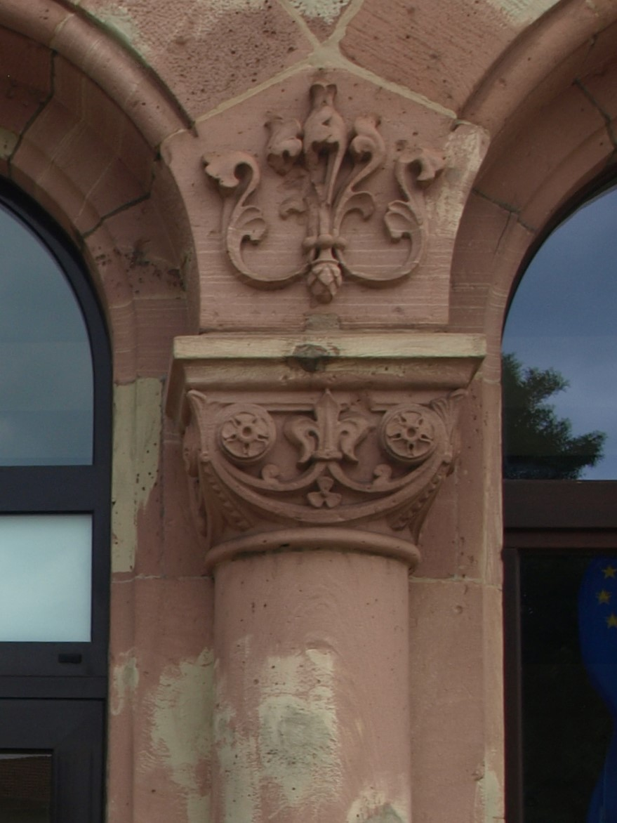 half column an capital in Romanesque Revival architecture style at train station in Bad Hersfeld, built in 1883